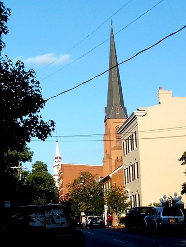 Church Street, Frederick Maryland